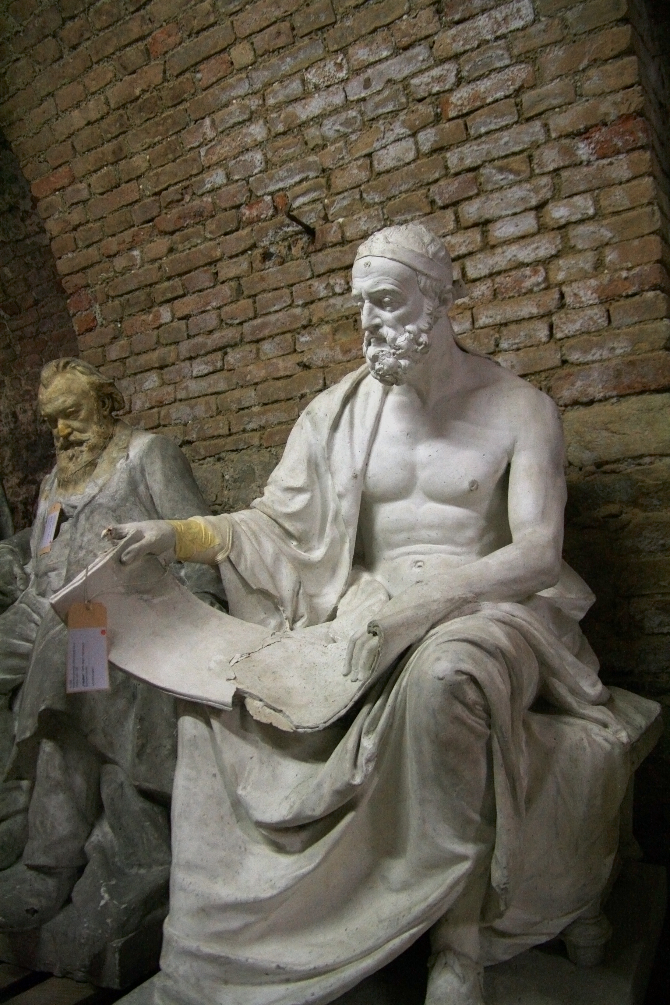 Models made of gypsum of statues, reliefs etc. from the time of Historicism and Art Nouveau (late 19th and early 20th century) for buildings at Ringstraße in Vienna, Austria, stored in the former wine cellar of Hofburg Palace (Leopold Wing). Dieses Bild wurde anlässlich des österreichischen Tags des Denkmals 2012 in Wien eingereicht.